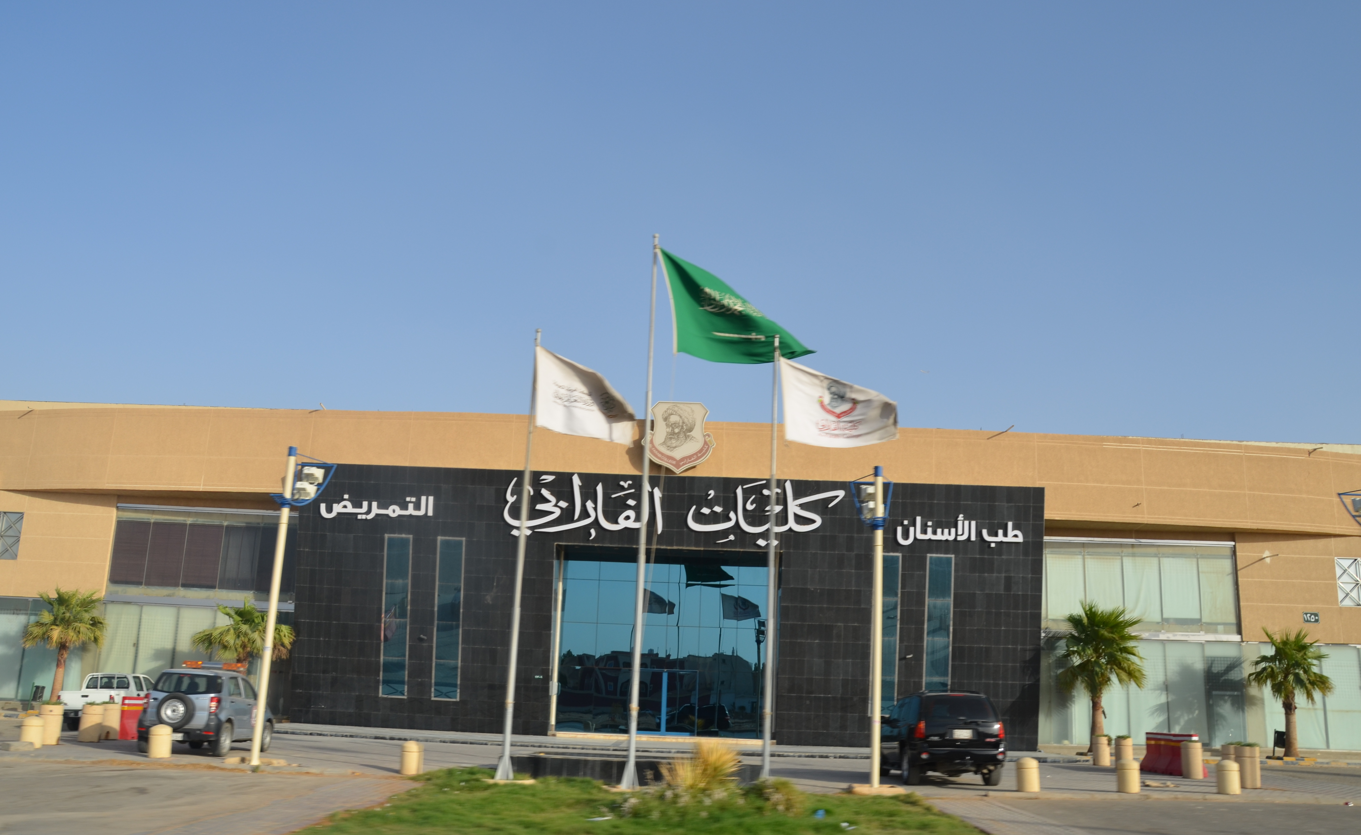 كليات الفارابي لطب الاسنان و التمريض طريق الملك عبدالله حي الخليج الرياض المملكة العربية السعودية